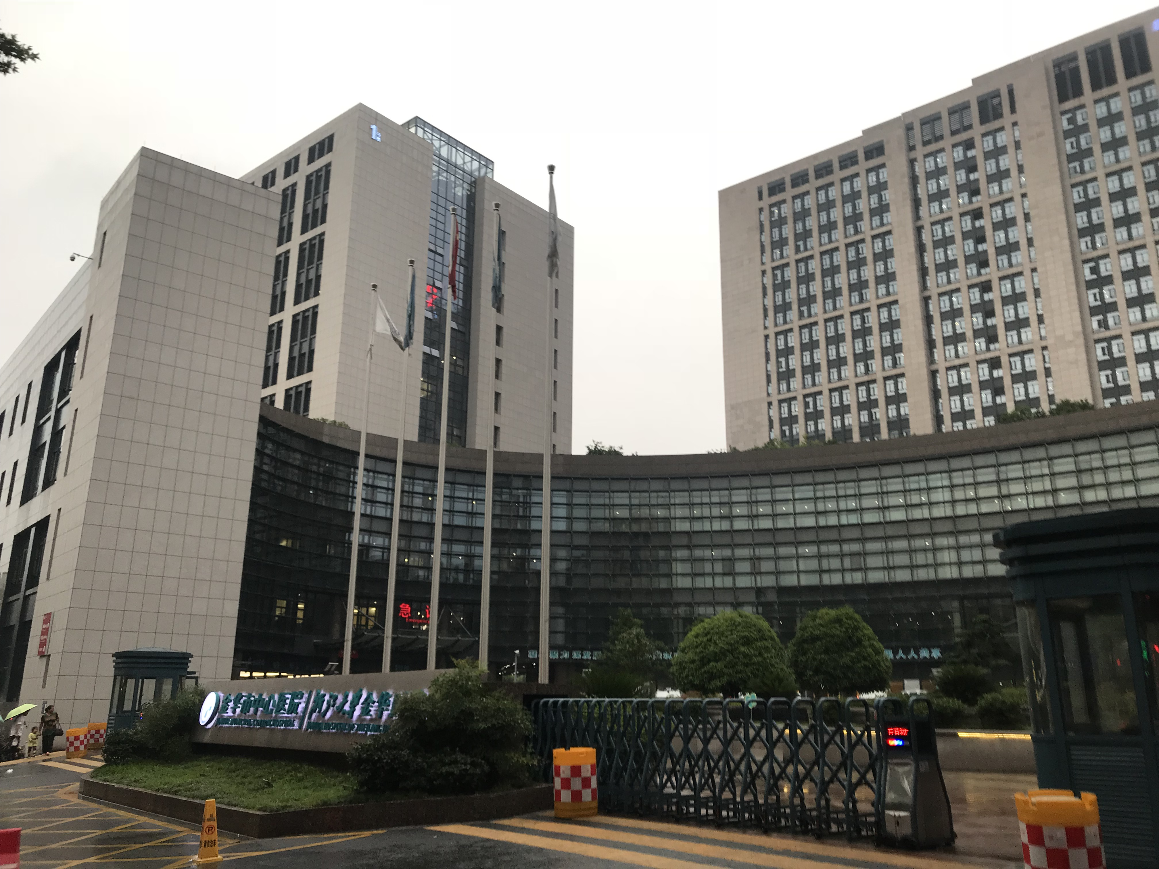 201806 Front Gate of Jinhua Hospital